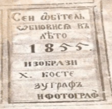 St. Demetrius Church in Veles Inscription